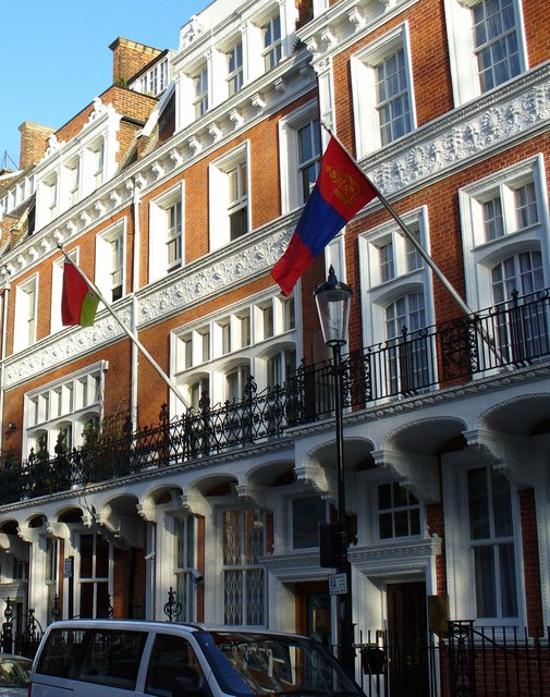 Embassies - Good Neighbours Kensington is "Embassy Land". There is an obvious functional agglomeration of these in the rich housing area south of Hyde Park. These are the Belarussian and Mongolian embassies in Kensington Court.